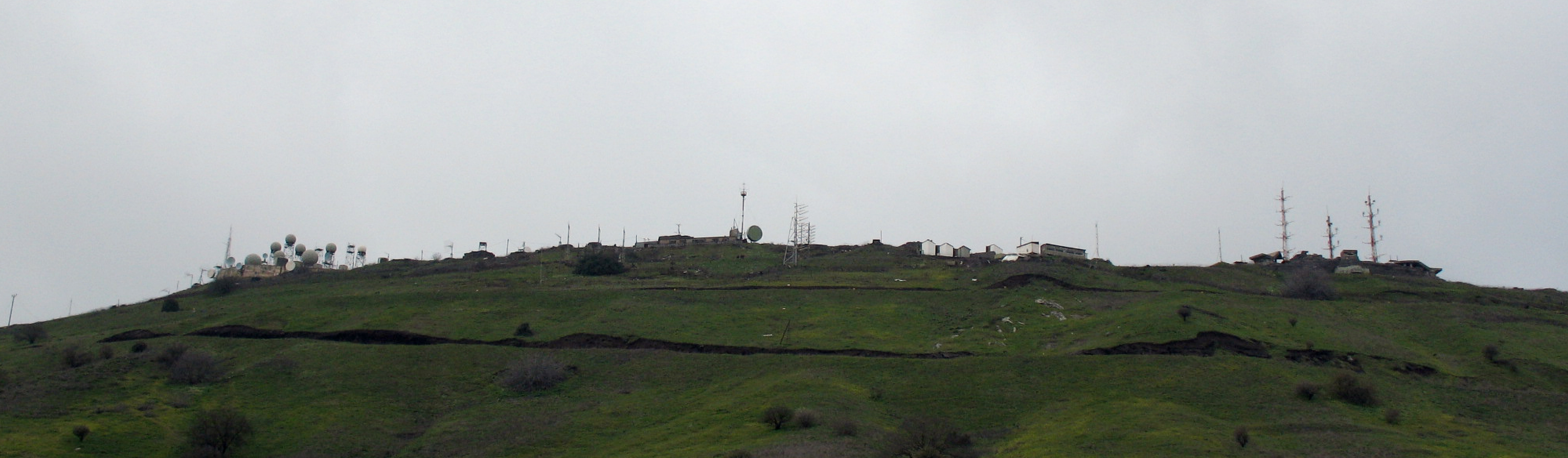 Unit 8200 (Israeli military intelligence) base on Har Avital, Golan Heights